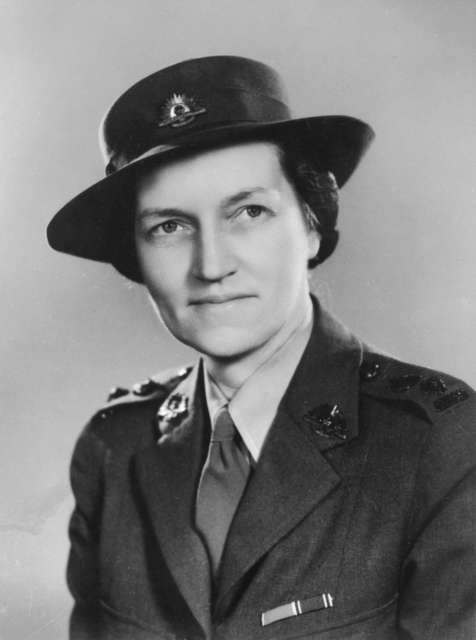 Australian War Memorial image 012996. LIEUT COL SYBIL IRVING, DIRECTOR AUSTRALIAN WOMEN'S ARMY SERVICE